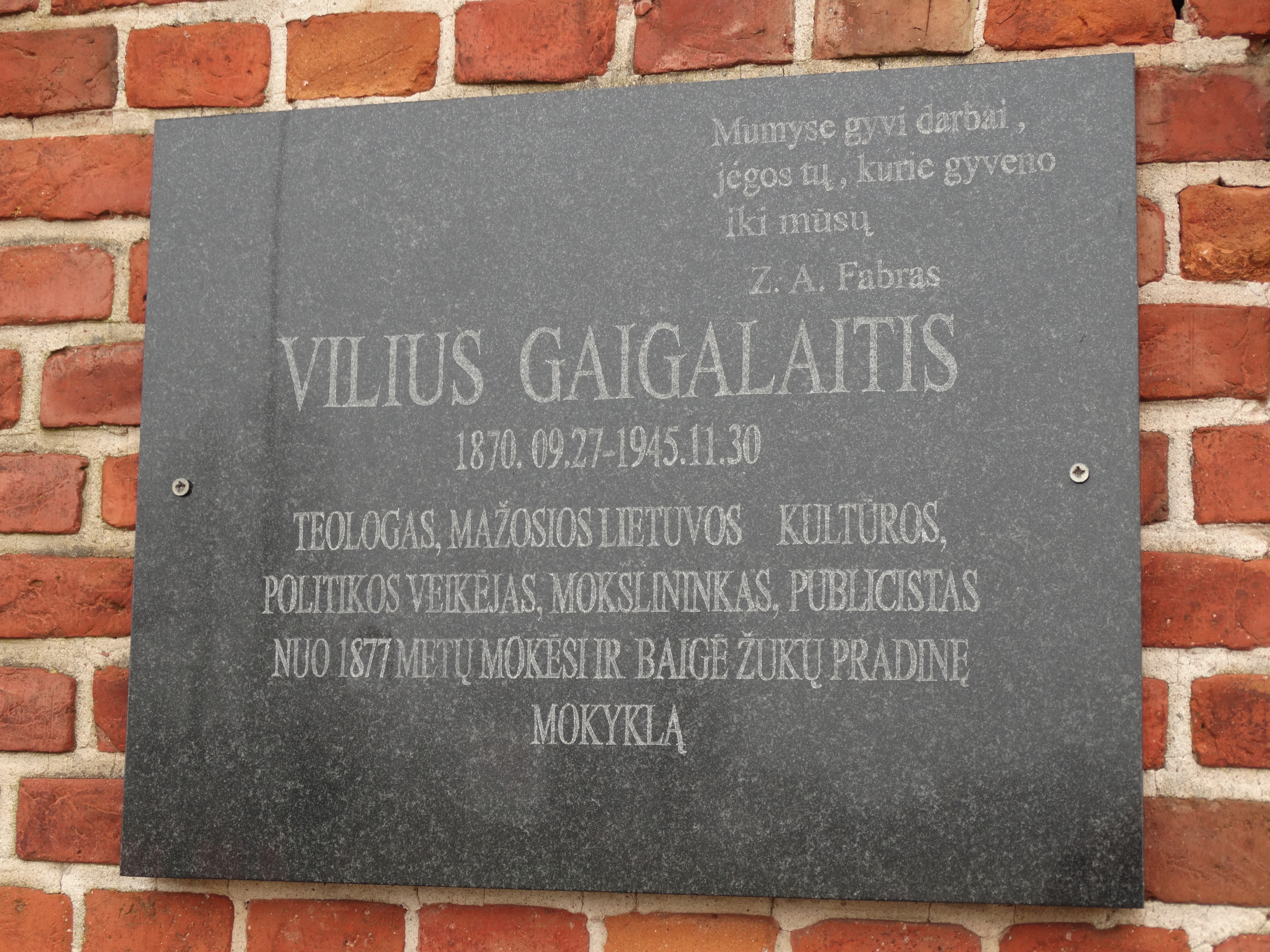 Memorial board, Žukai, Pagėgiai Municipality, Lithuania